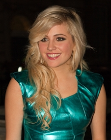 Singer Pixie Lott attending the PPQ fashion show for London Fashion Week. The real image was cropped for a better view of the article, which can be found here.